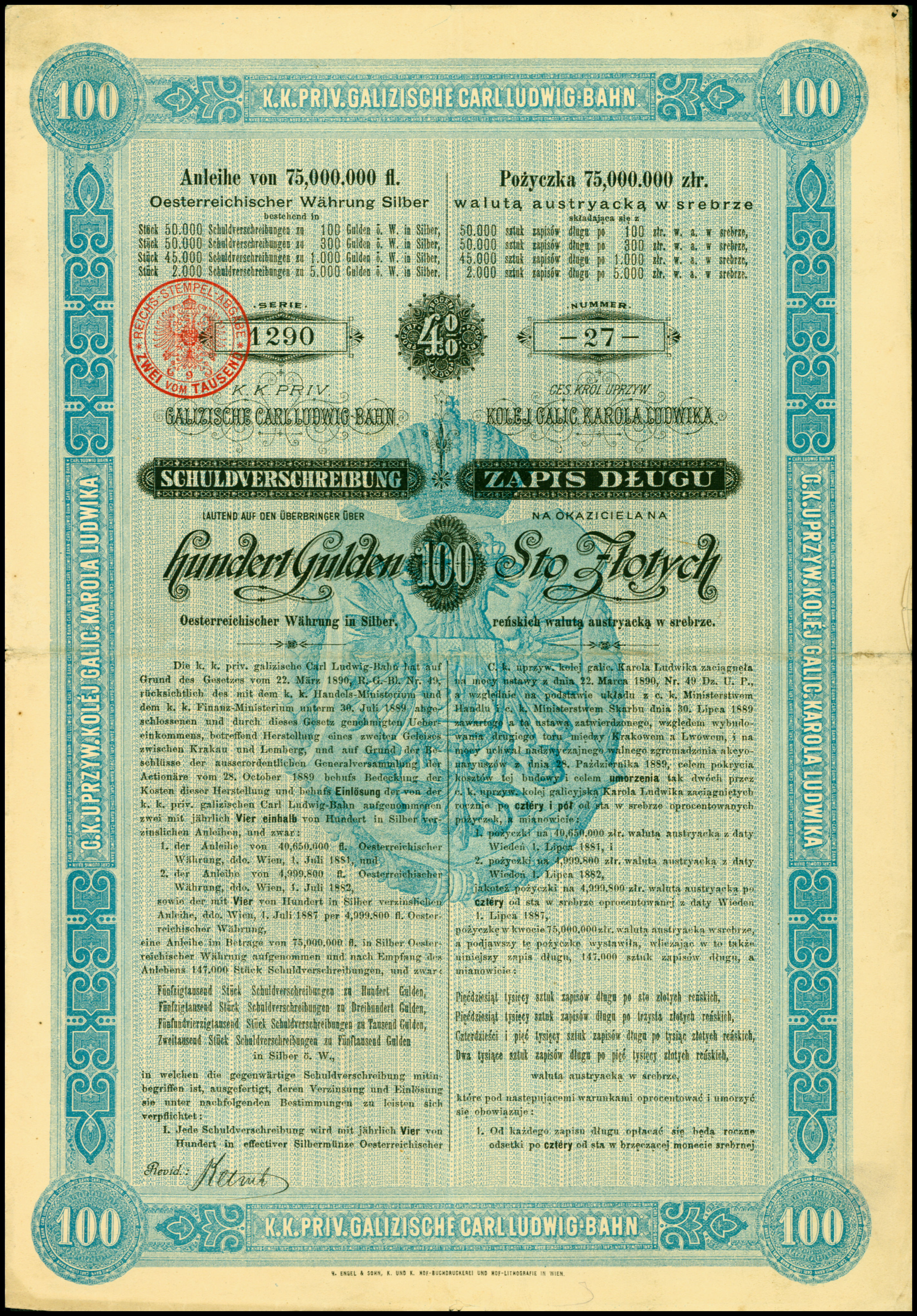 Bond of the Galizische Carl-Ludwig-Bahn, issued 1. July 1890